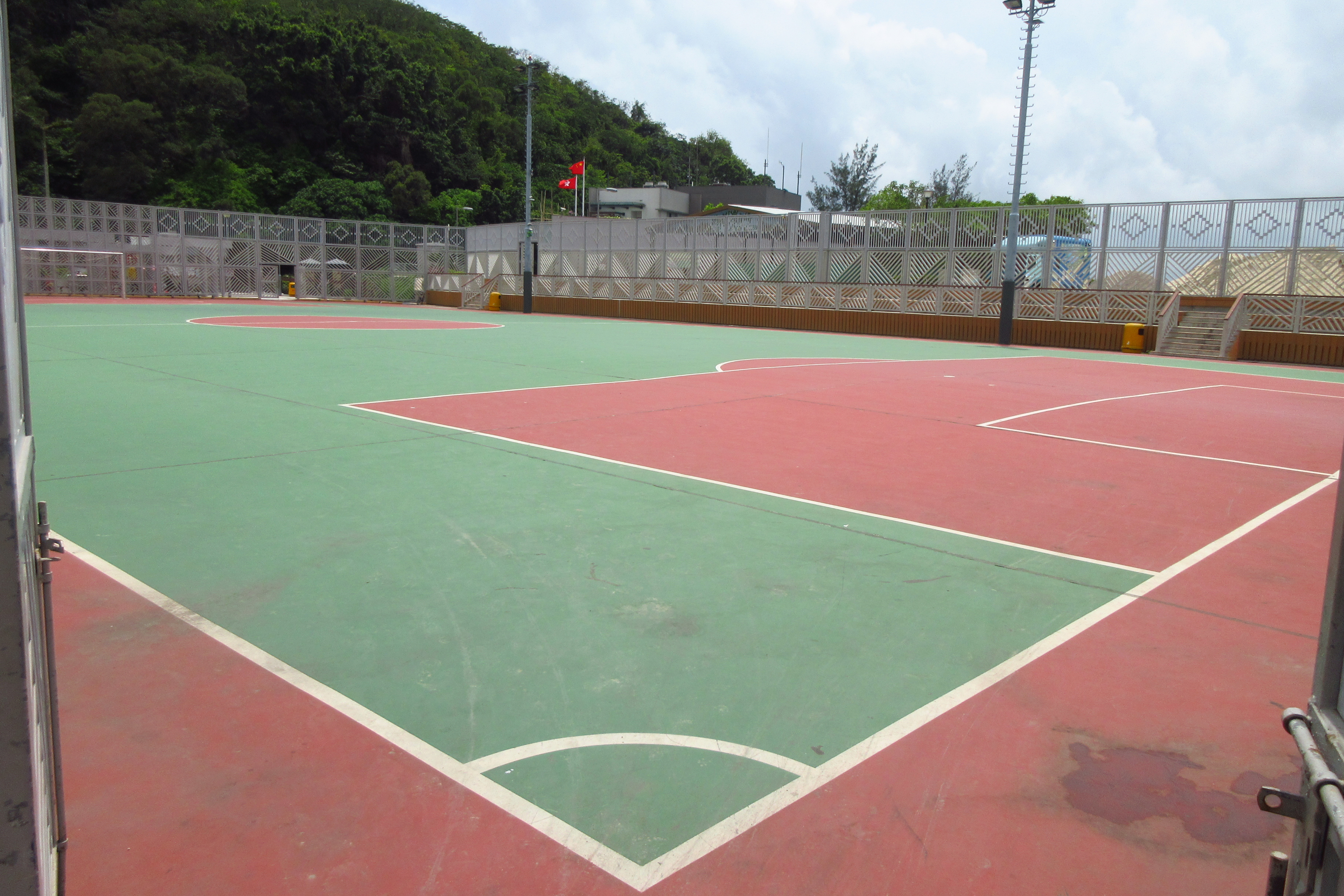 HK YSW 南丫島 Lamma Island 榕樹灣廣場路 Yung Shue Wan Plaza Road Playground in June 2018